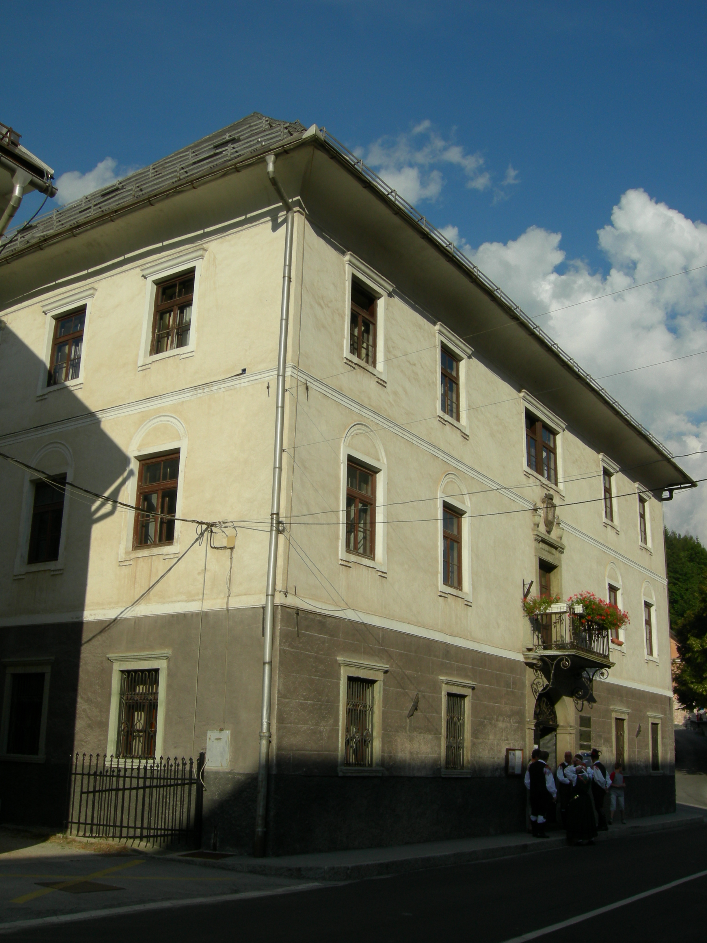 The Kos manor house - the original building in Jesenice was constructed in 1521